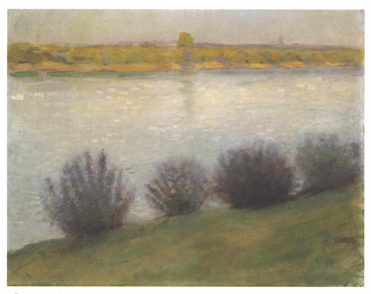 At the Rhine near Hersel